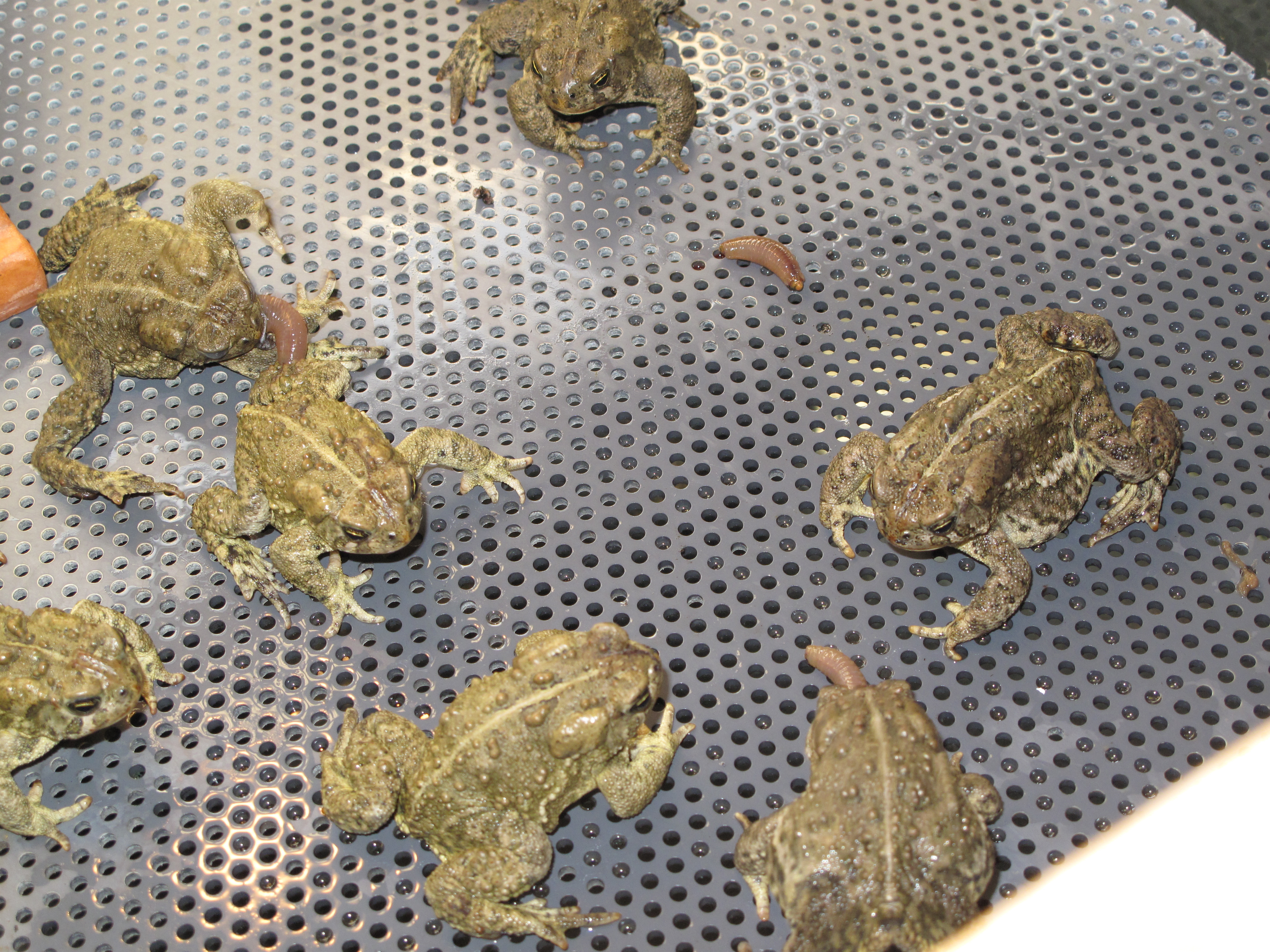 They are given live prey to learn basic wilderness skills. Credit: Stephanie Raine/ USFWS